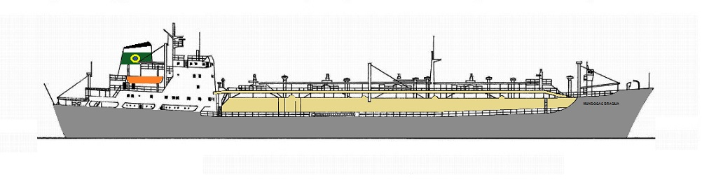 LPG Tanker ship